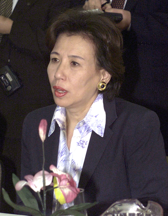 Her Excellency Makiko Tanaka (田中眞紀子), Minister of Foreign Affairs, Japan attends a briefing on recovery operation at Pearl Harbor, Hawaii (HI). Mrs. Tanaka came to lend her support and received an update on the US Navy (USN) led effort during recovery operations for the Japanese fishing vessel Ehime Maru. Location: PEARL HARBOR, HAWAII (HI) UNITED STATES OF AMERICA (USA) Camera Operator: PH3 LOLITA D. SWAIN, USN